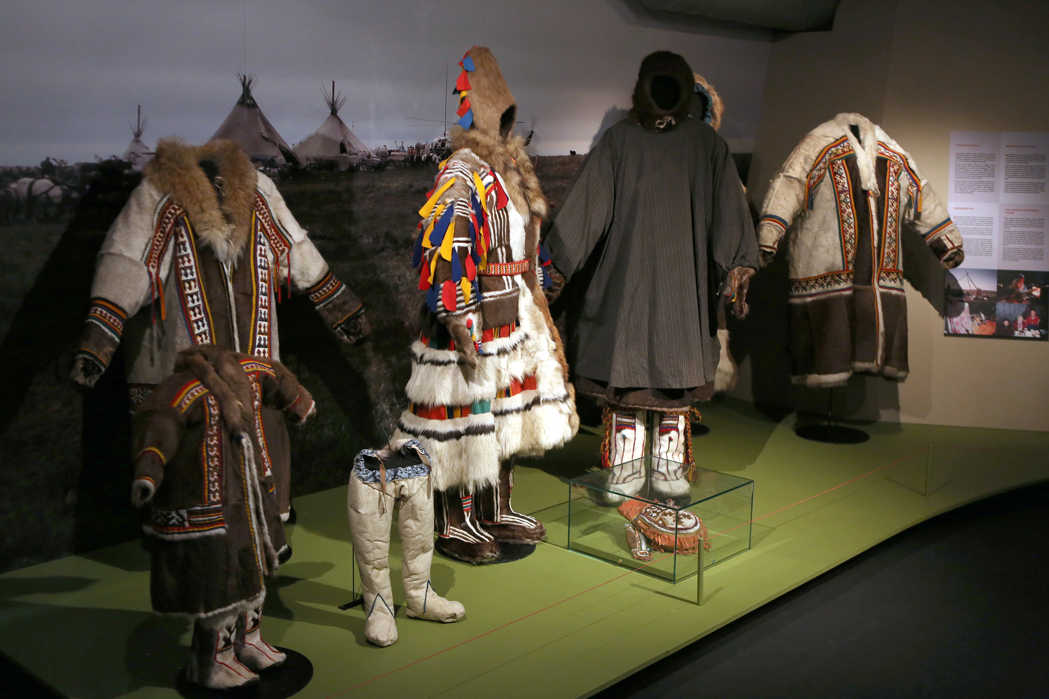 Exhibition dedicated to the culture of the Nenets at Siida museum in Inari, municipality of Inari, Finland.